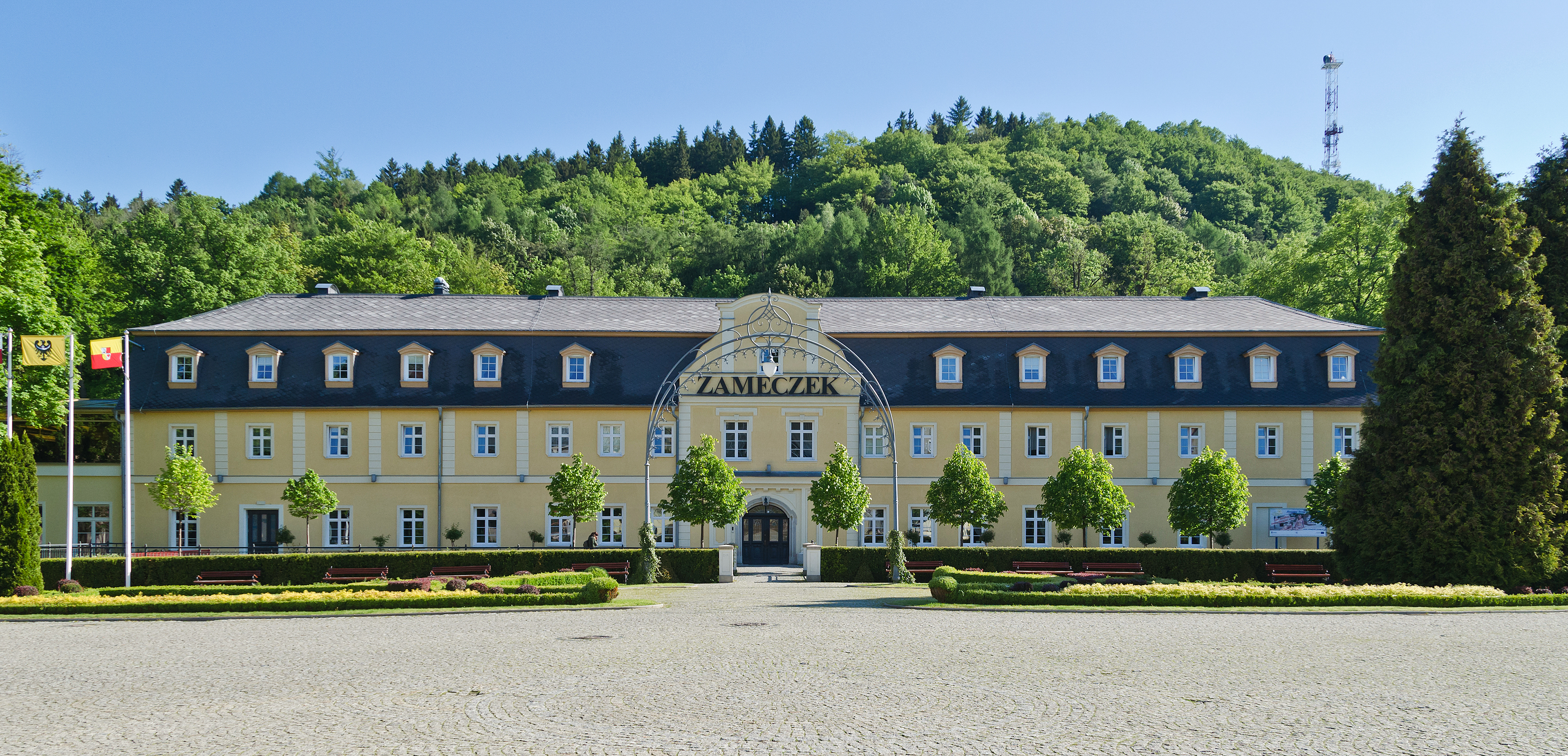 Zameczek Hotel in Kudowa-Zdrój